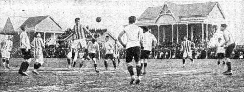 Copa Newton match, Argentina v. Uruguay at Racing Club stadium.